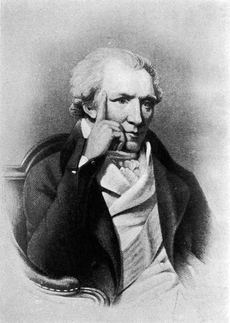 Woodcut of Count Rumford, appearing as frontispiece of The Rumford kitchen leaflets, 1899. Boston : Rockwell and Churchill Press, 1899.